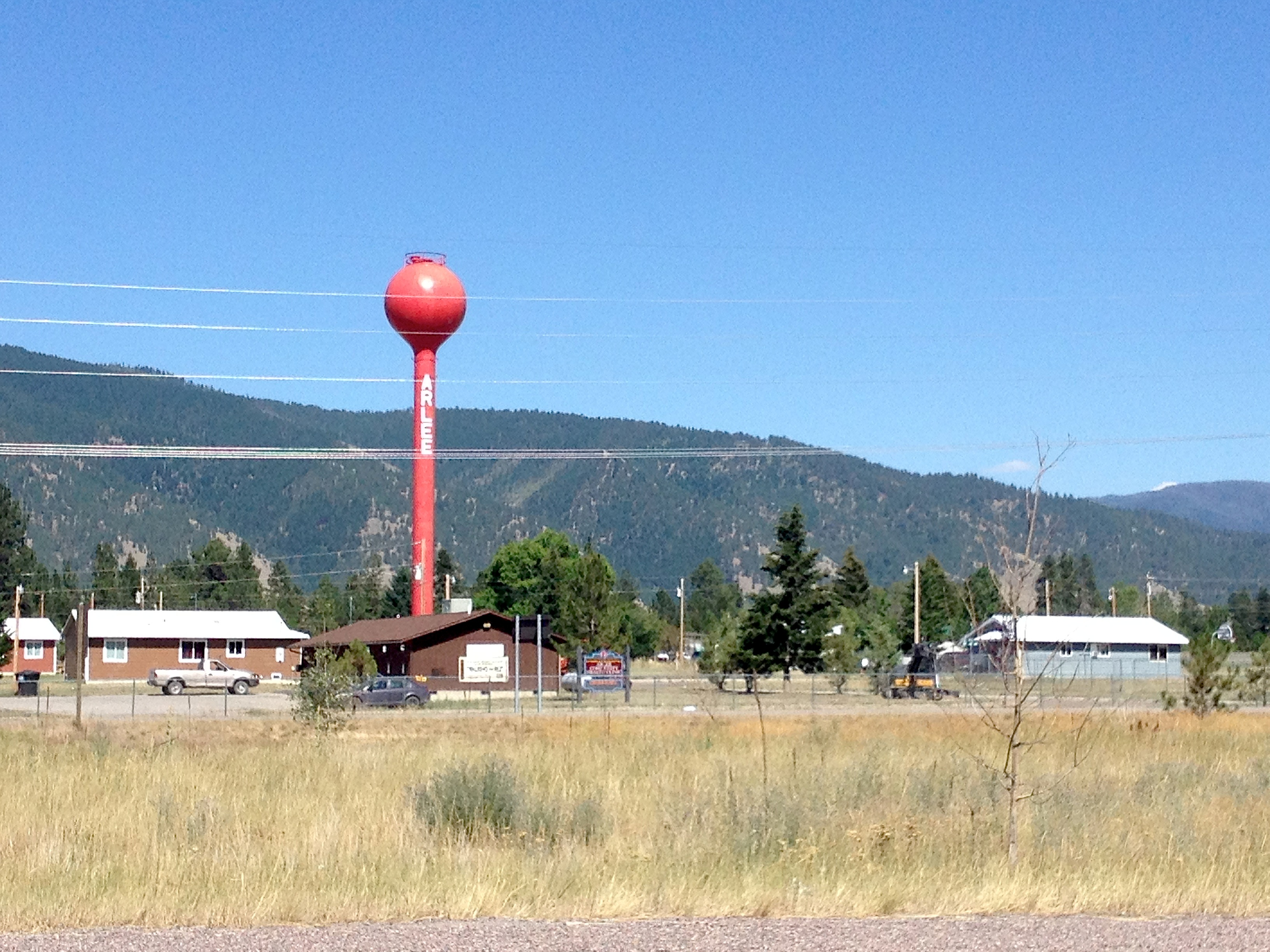 Red water tower in Arlee, Montana, with mountains. Photographed July 23, 2013.